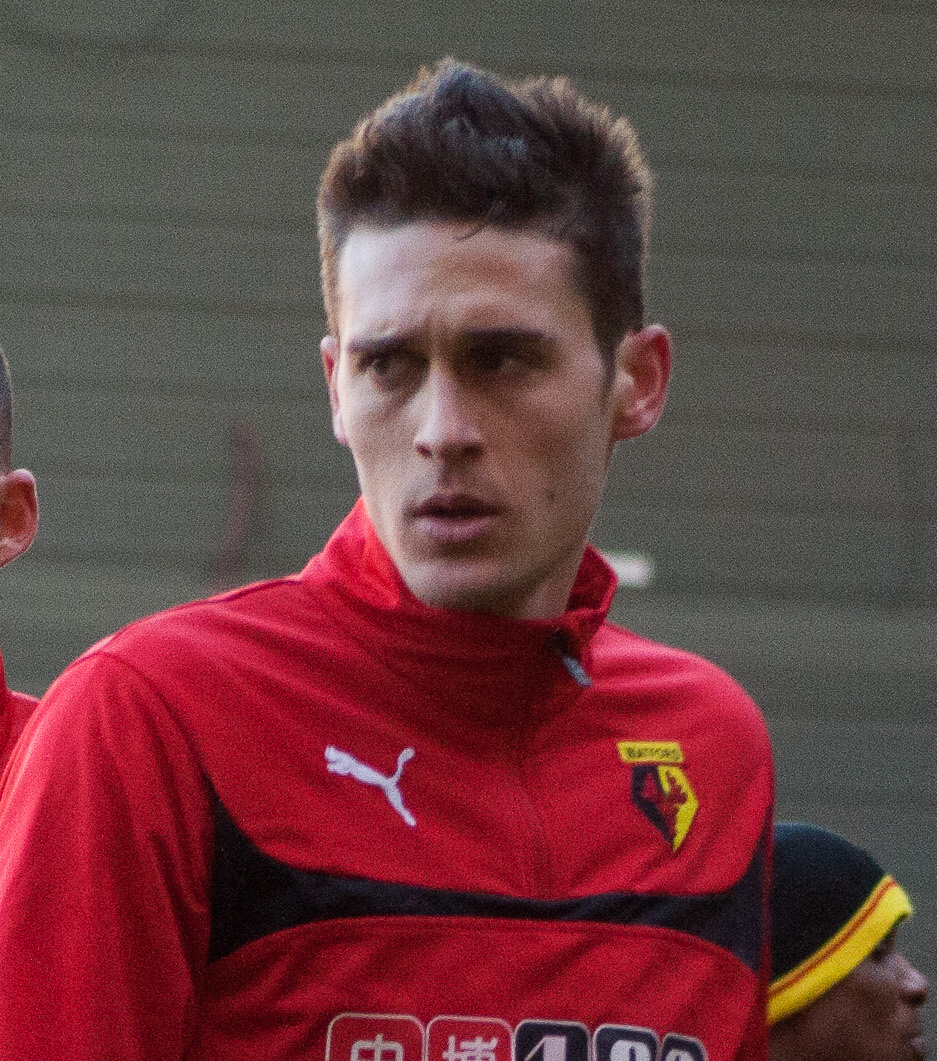 Gabriele Angella warming up for Watford FC